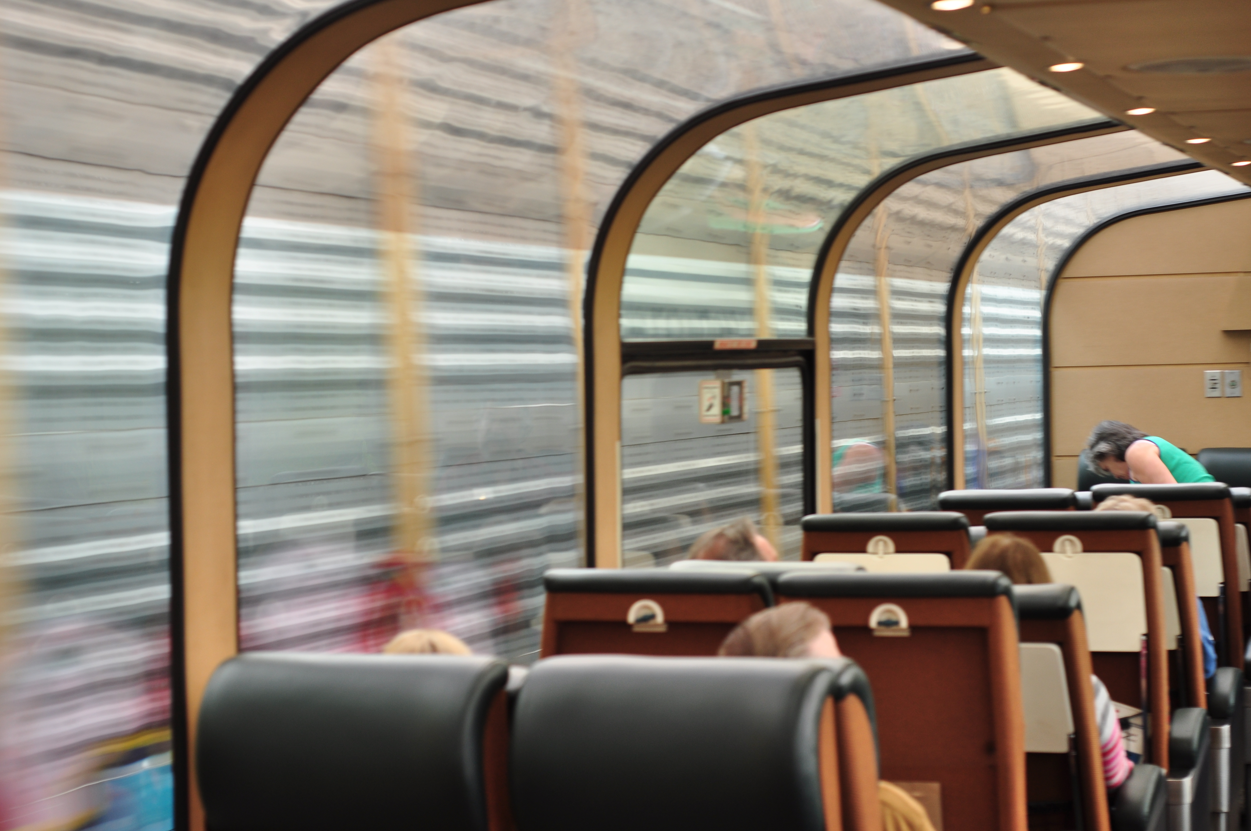 Train Across Canada - The Canadian Via Rail